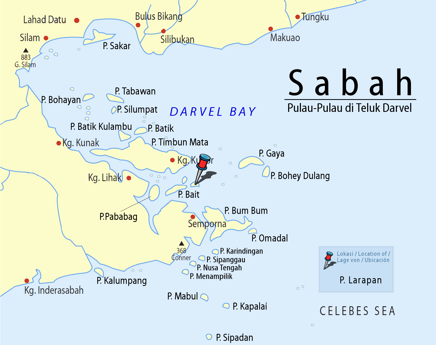 Sabah: Scheme of Islands in the Darvel Bay with Pushpin Marker for Pulau Larapan